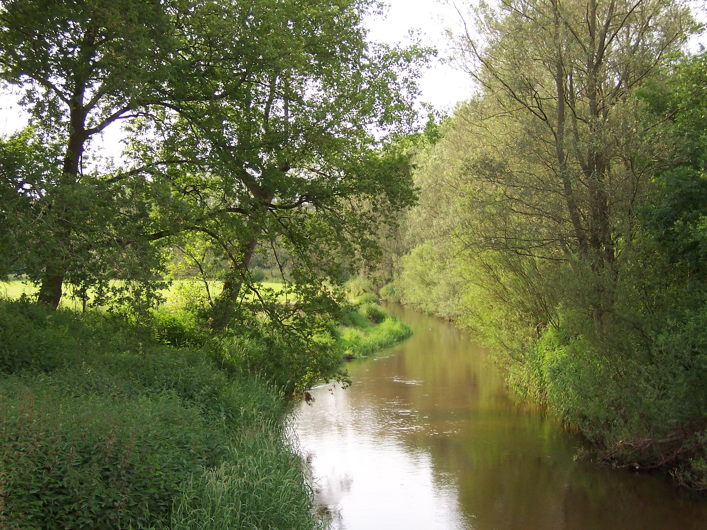 River Dinkel near Losser in the Netherlands. Taken with Kodak EasyShare DX6440